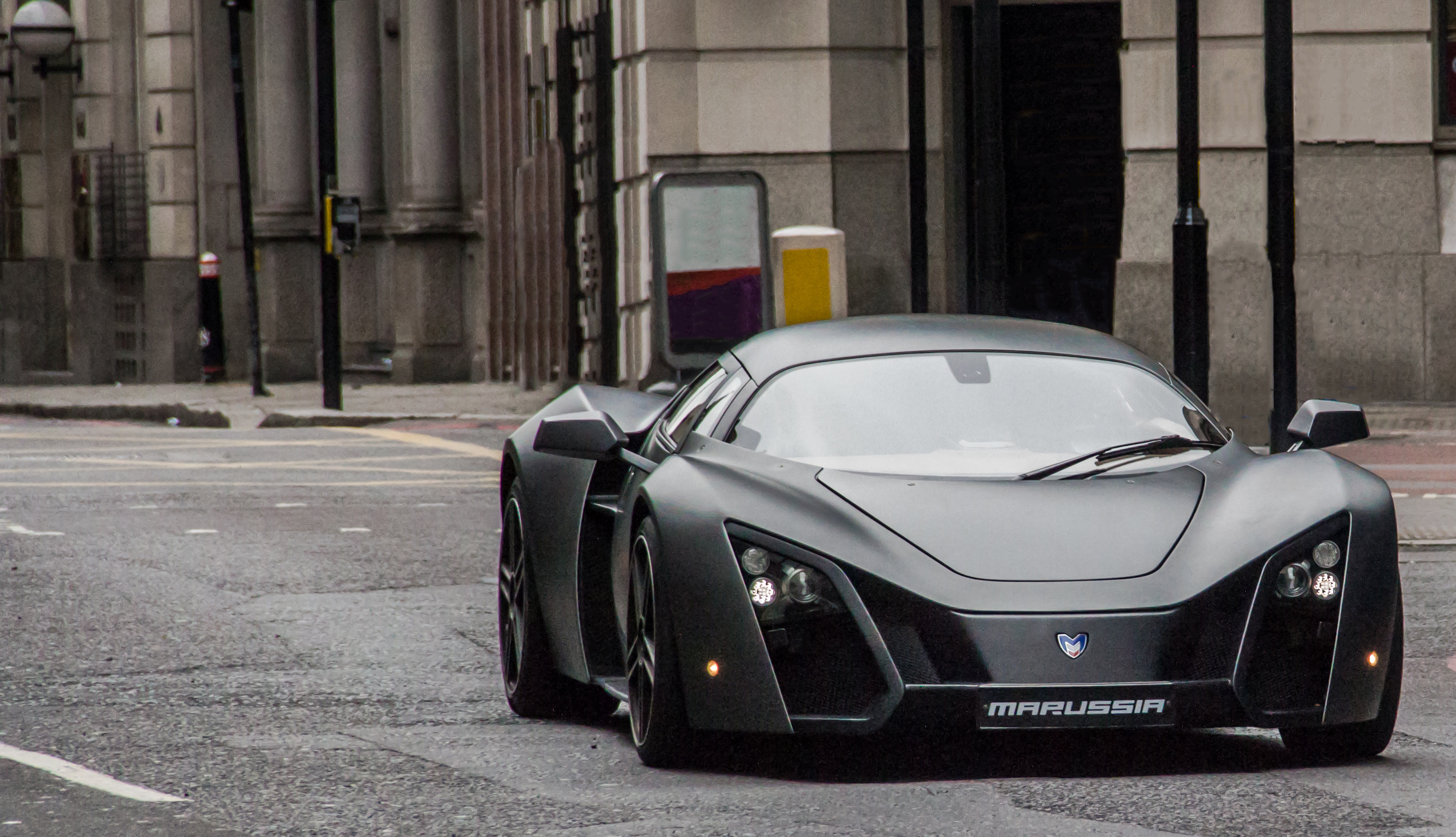 Face one